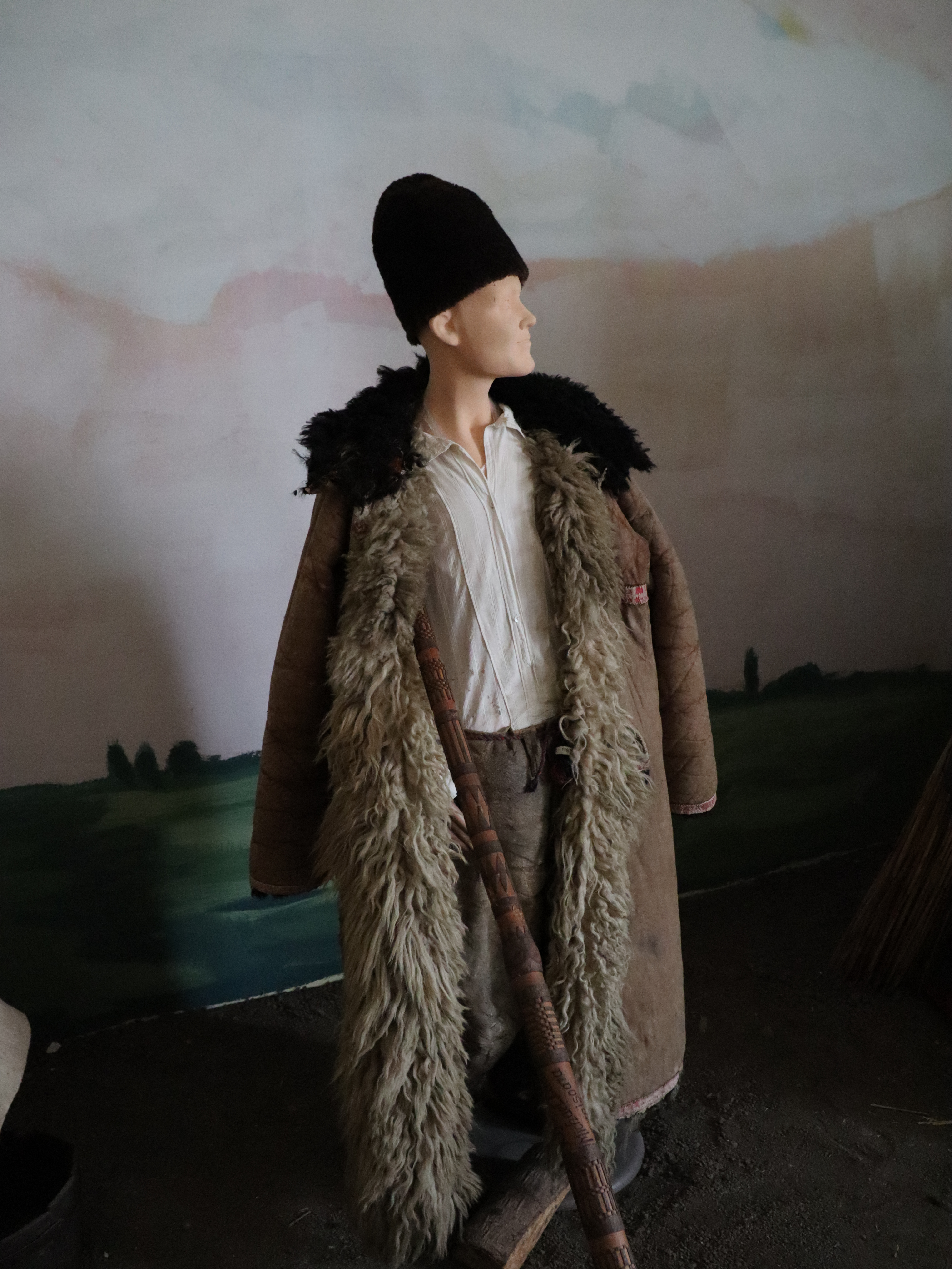 Shepard clothing in Zrenjanin. It is on display as a part of permanent exhibition in Zrenjanin National Museum.